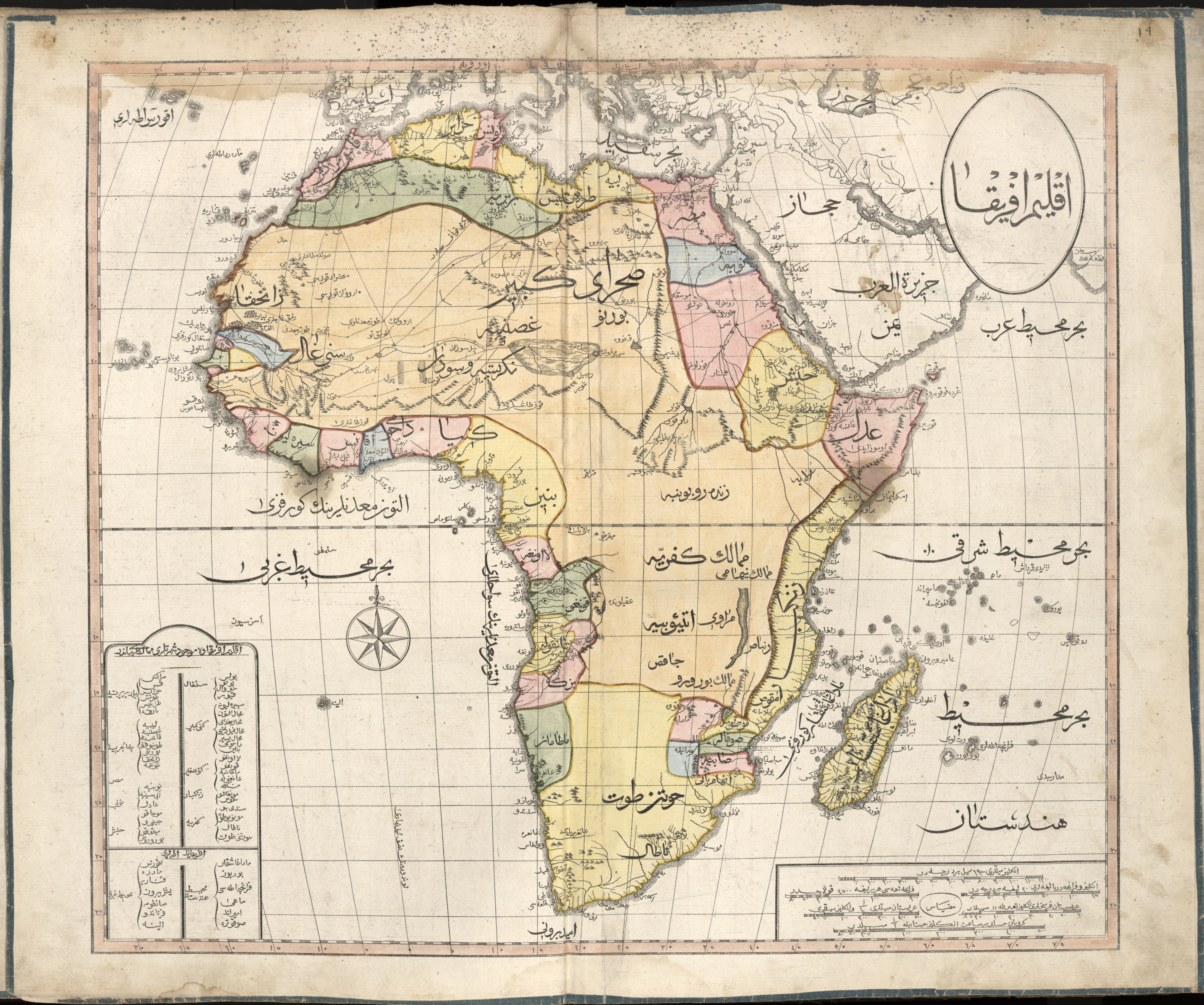 The Africa sheet of the 1803 Cedid Atlas (one of 24 sheets in total). It is the first published atlas in the Muslim world, and only 50 copies were printed at the press, as as such it is one of the rarest printed atlases of historical value and of great importance to Middle Eastern history.